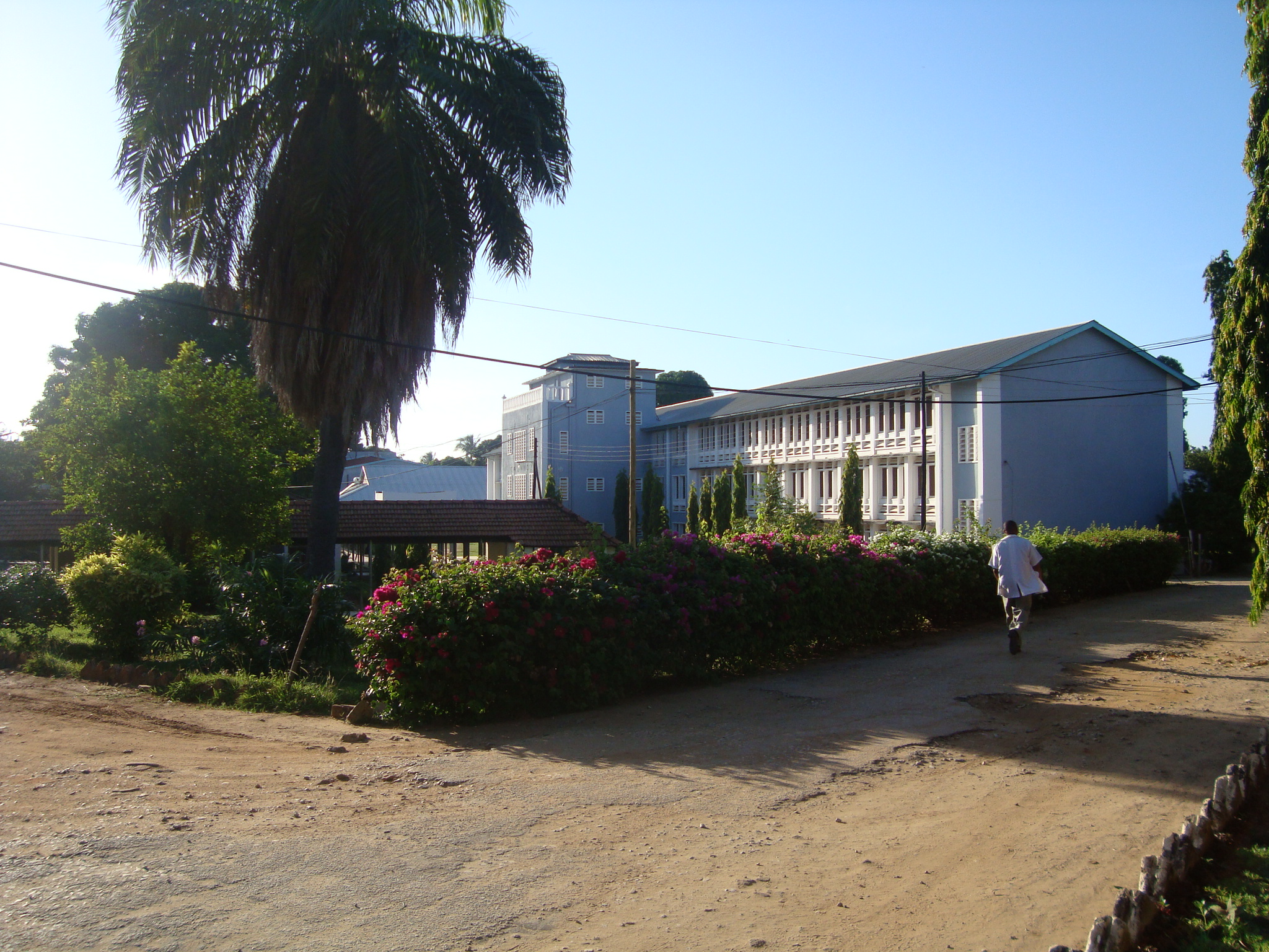 Bombo Hospital Ground Floor WARD A1,A2 (Surgical Department) 1st Flo: WARD B3 B4, (medical department) 2nd Flo C5$C6 (OB/GYN)